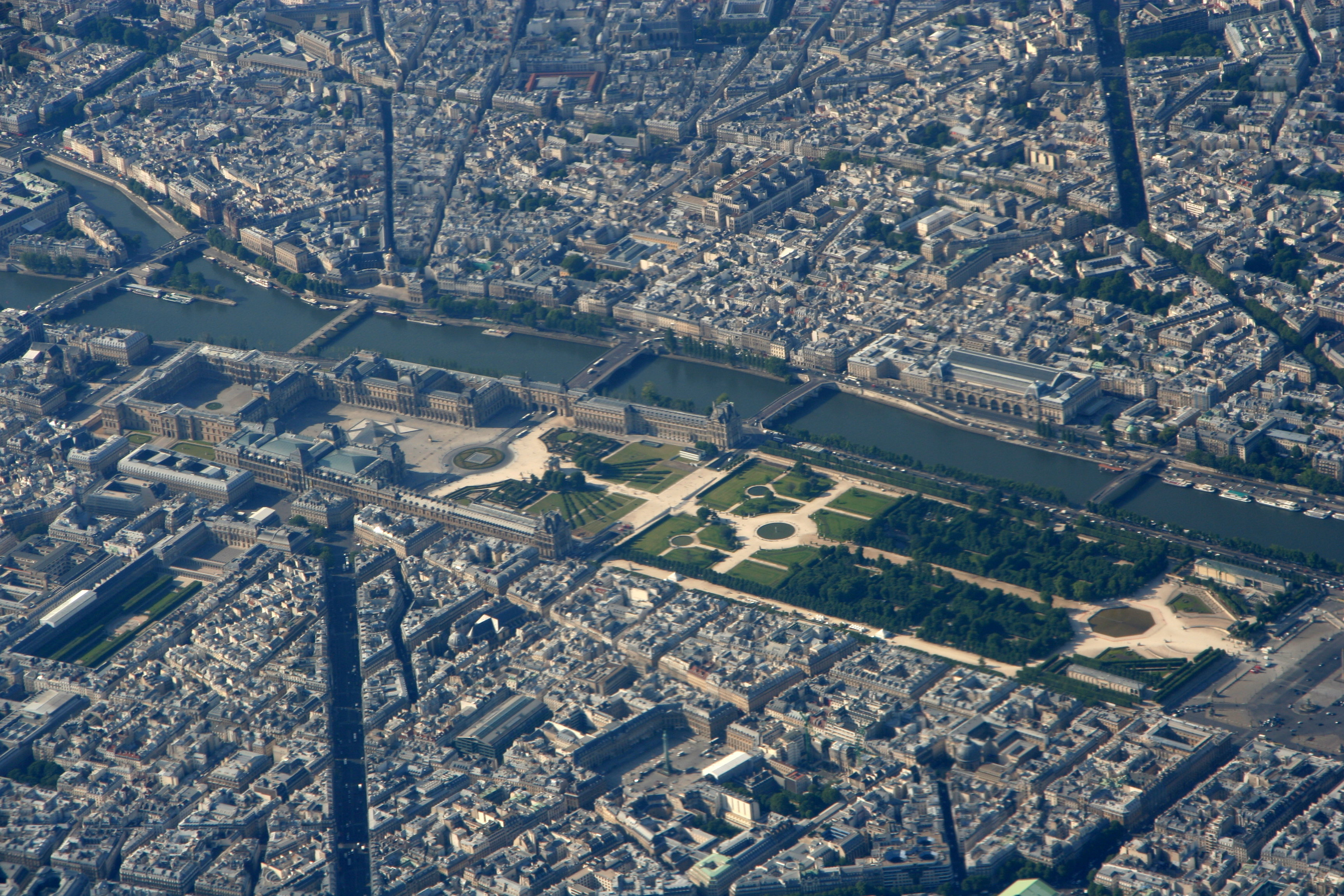 The Louvre from an airplane.